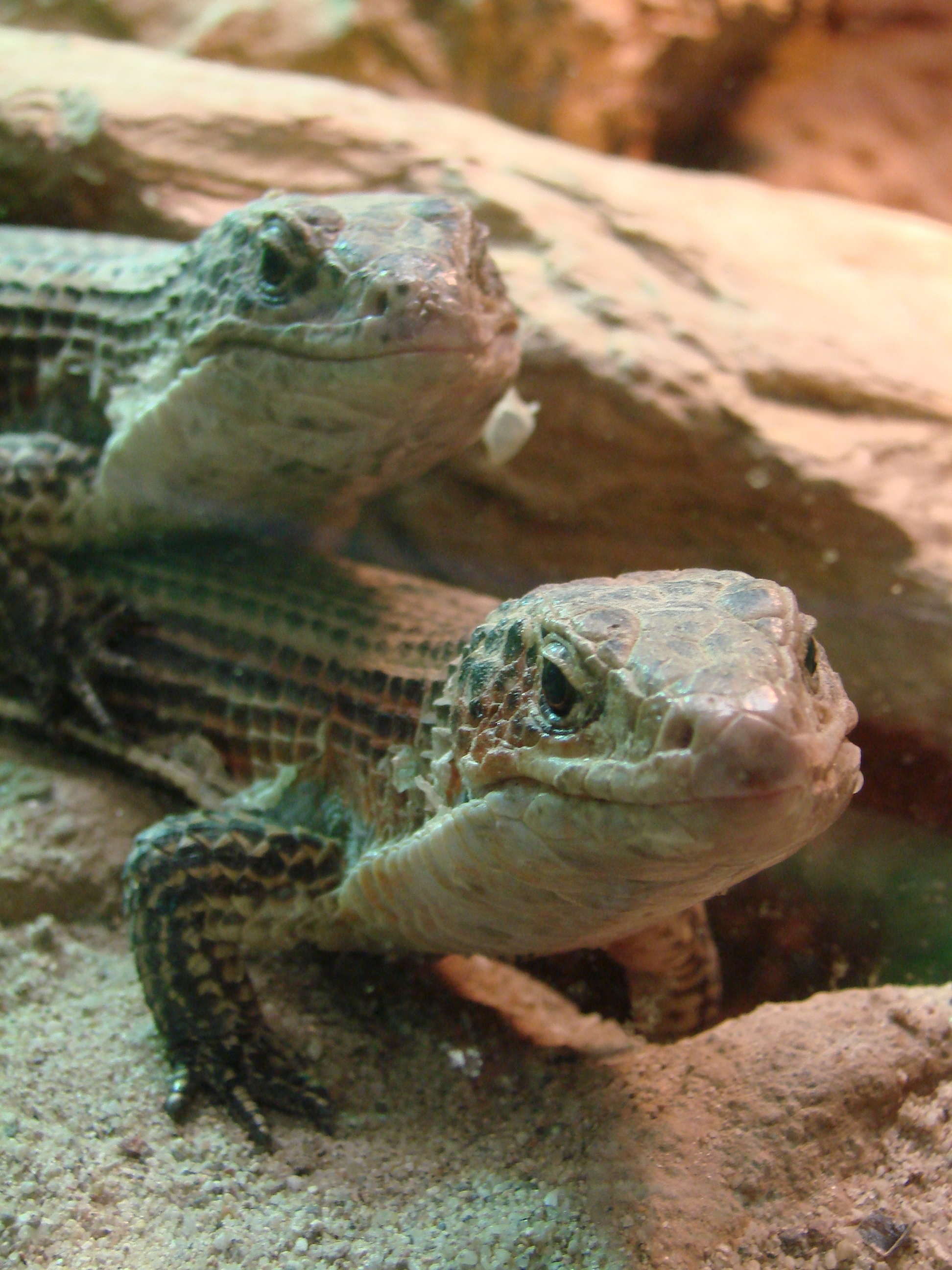 Picture taken in the zoo of Wrocław (Poland): Gerrhosaurus major major (Duméril, 1851)